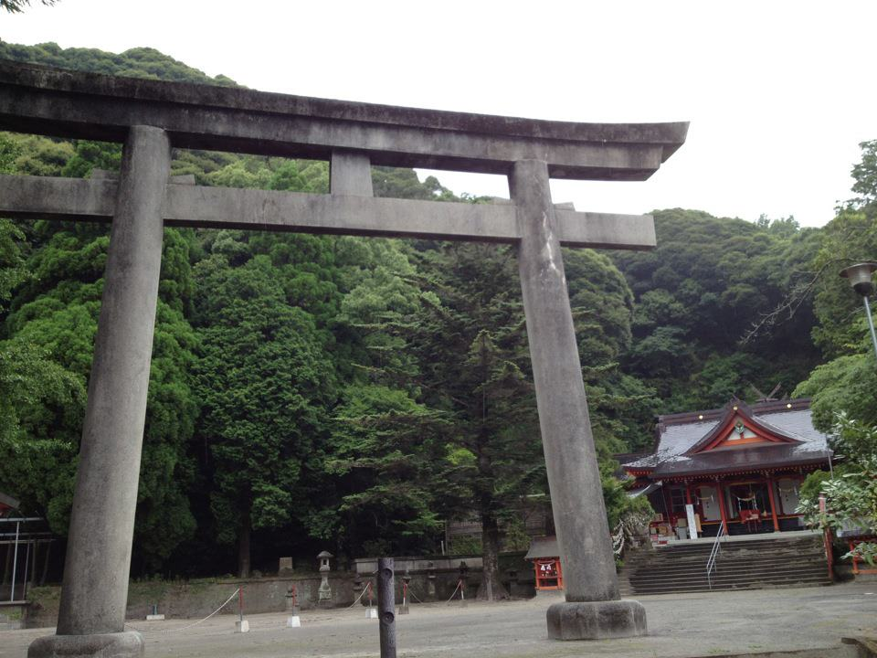 toyotamahimejinja